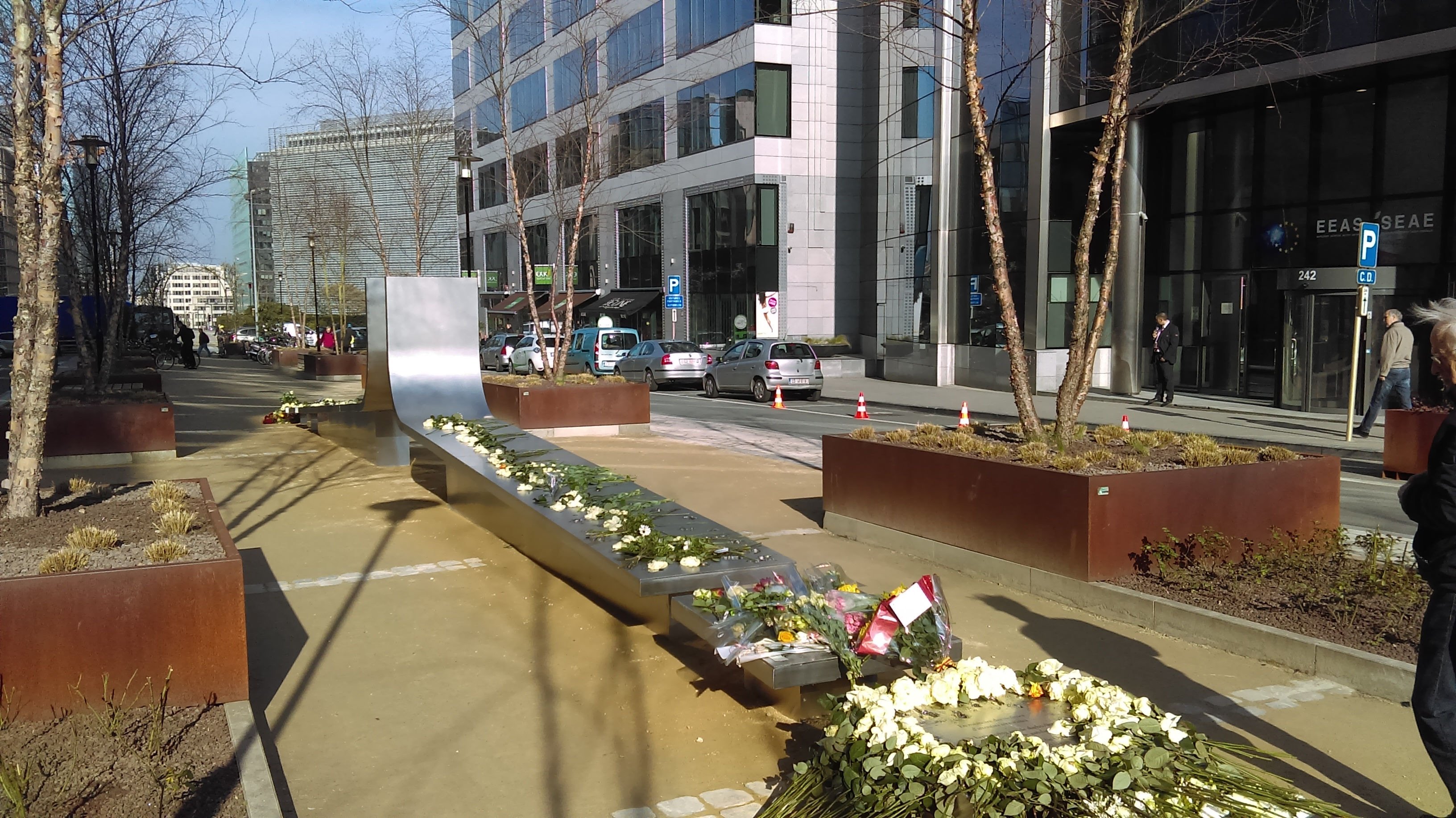 Memoriel 22 mars 2016, rue de la Loi, Bruxelles